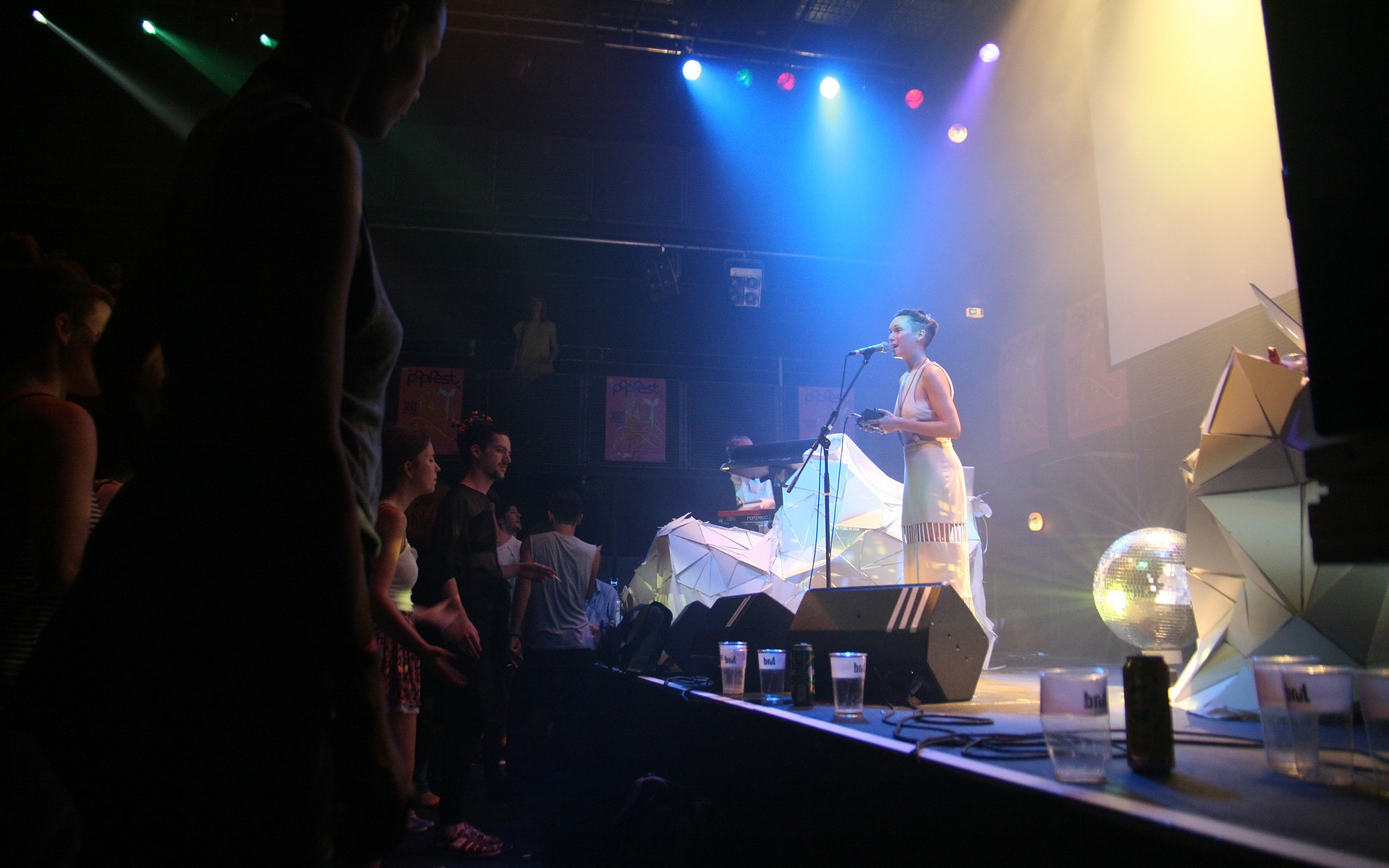 Concert of Austrian group Konea Ra at brut im Künstlerhaus in Vienna during Popfest 2012.